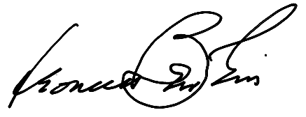 Signature of Leonard Bernstein (from an autograph card)